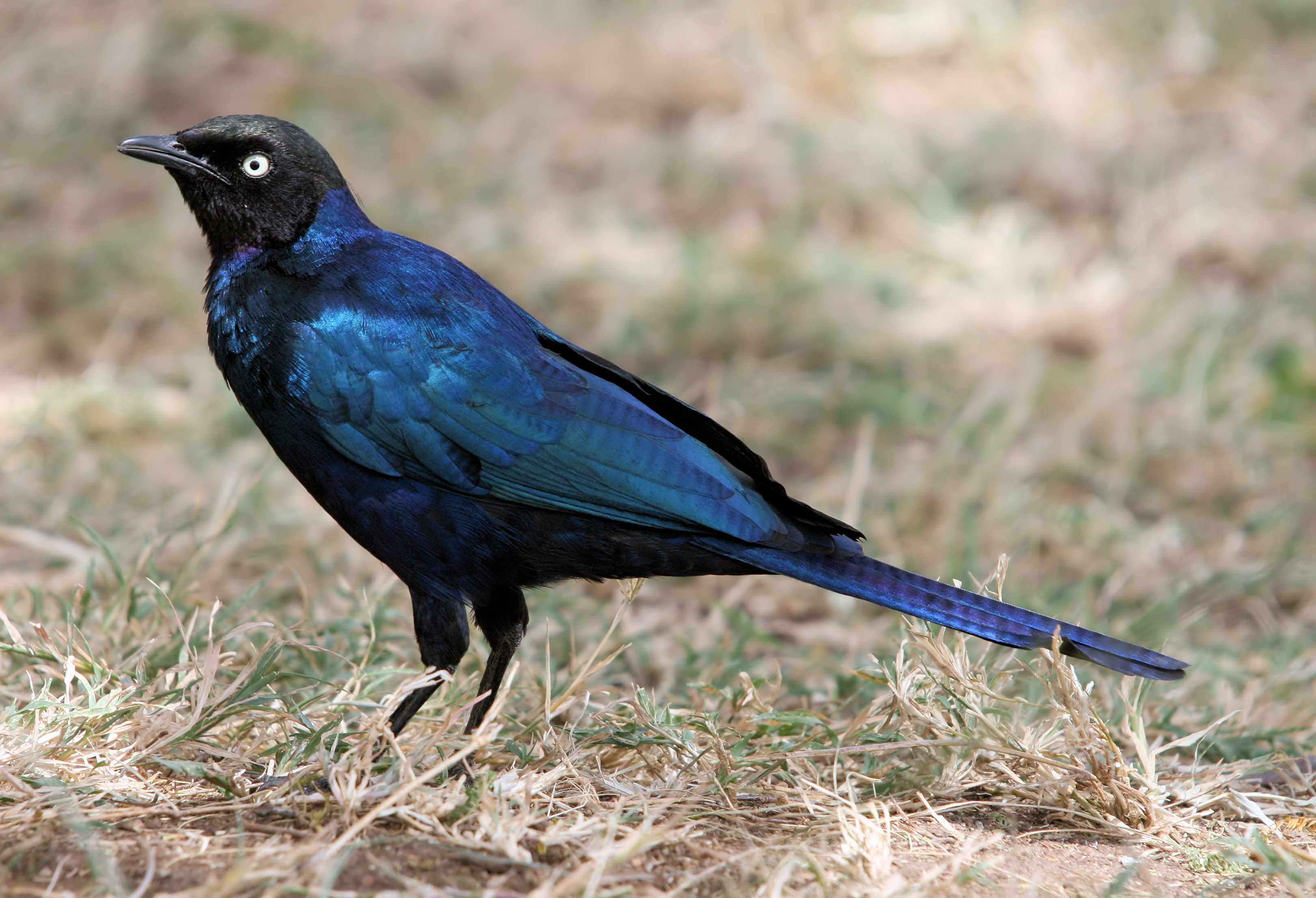 Rüppell's Glossy Starling Lamprotornis purpuroptera, picture taken at Serengeti Nationalpark, Tanzania